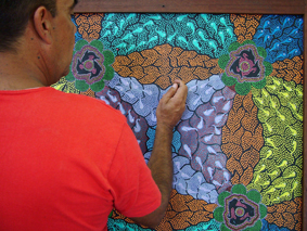 Les Murdoch Painting one his original artworks 2005